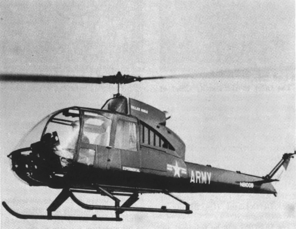 First OH-5A in flight